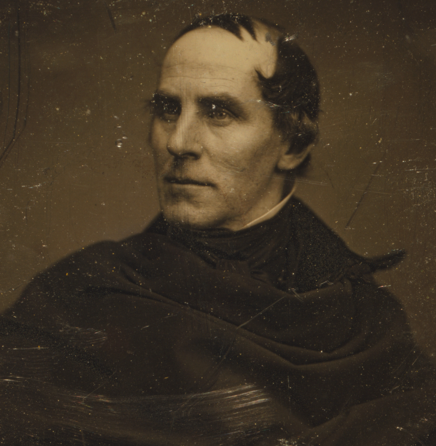 Thomas Cole. Cropped from original image.